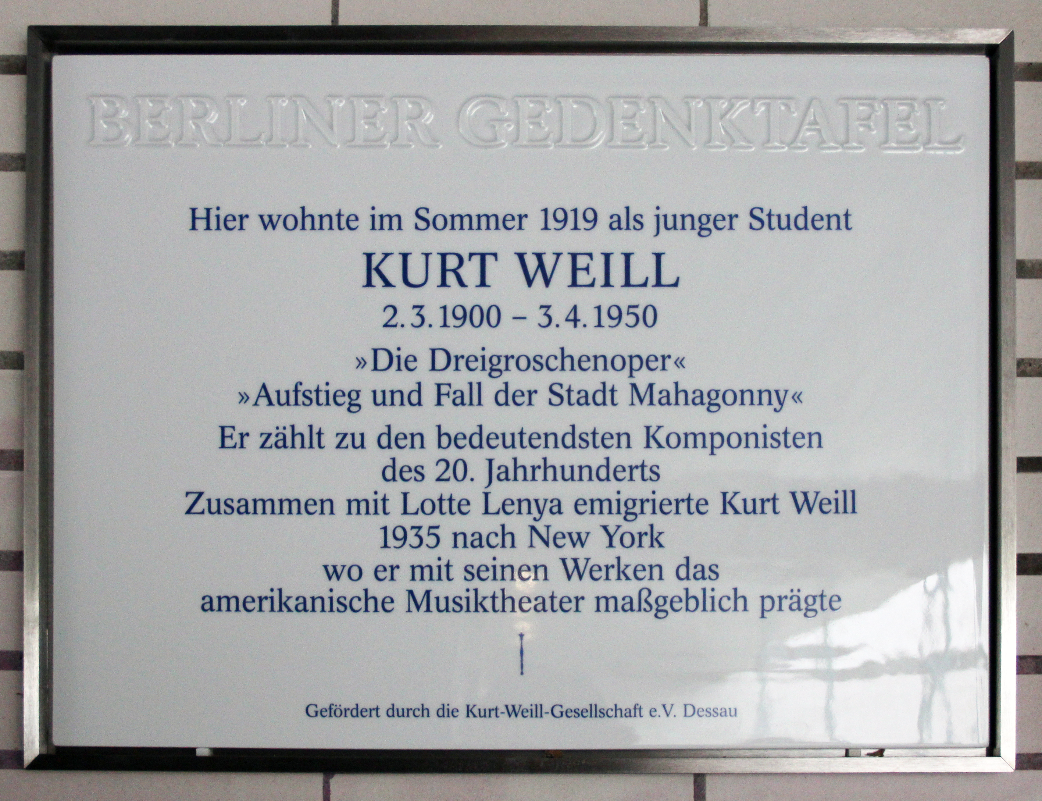 Berlin memorial plaque, Kurt Weill, Altonaer Straße 22, Berlin-Hansaviertel, Germany